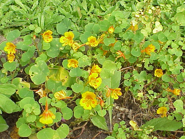 Species: Tropaeolum minus Family: Tropaeolaceae Image No. 4